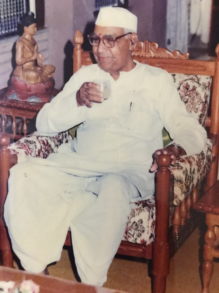 At Rajbhawan, Gujarat.